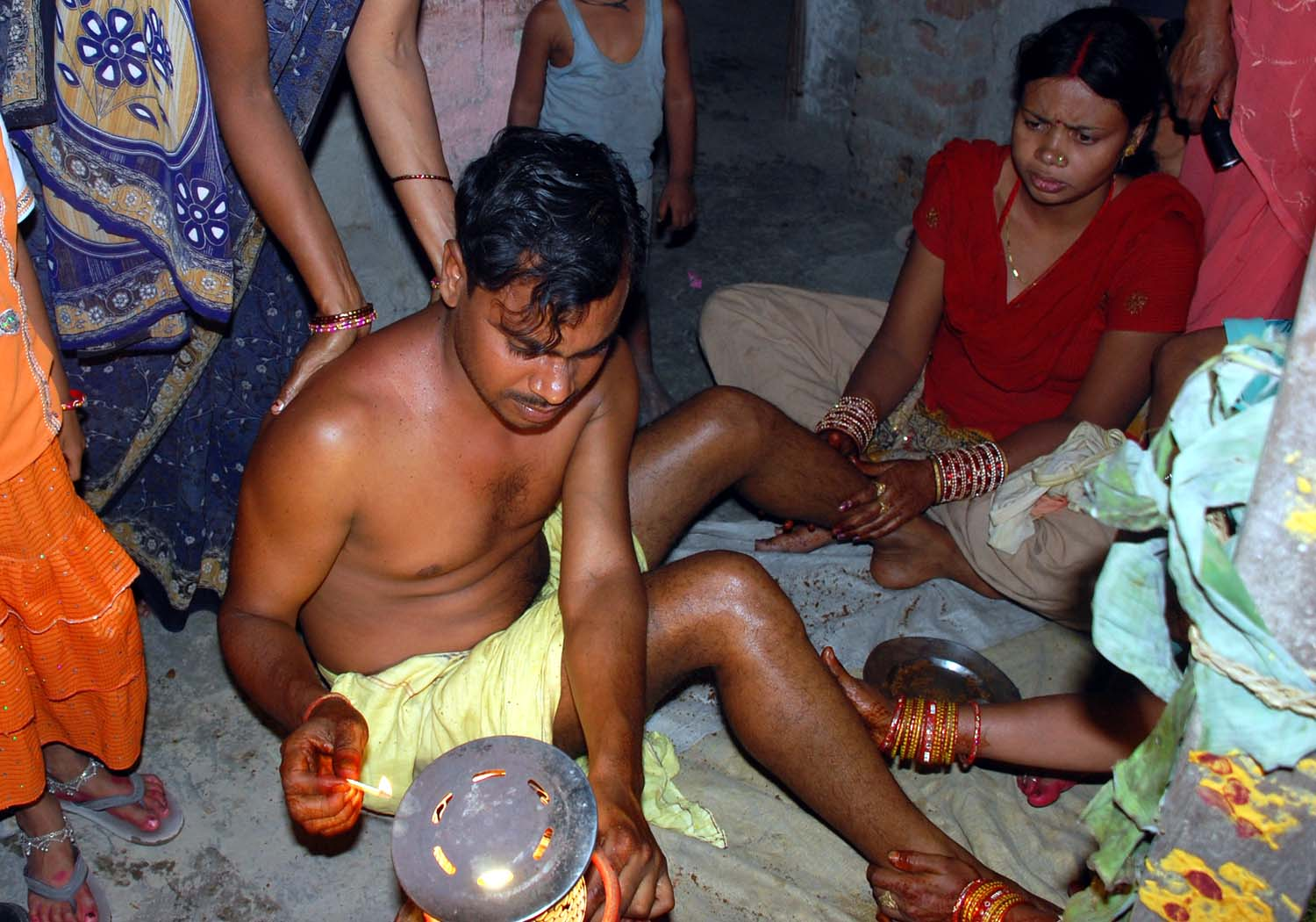 मधेश विवाह